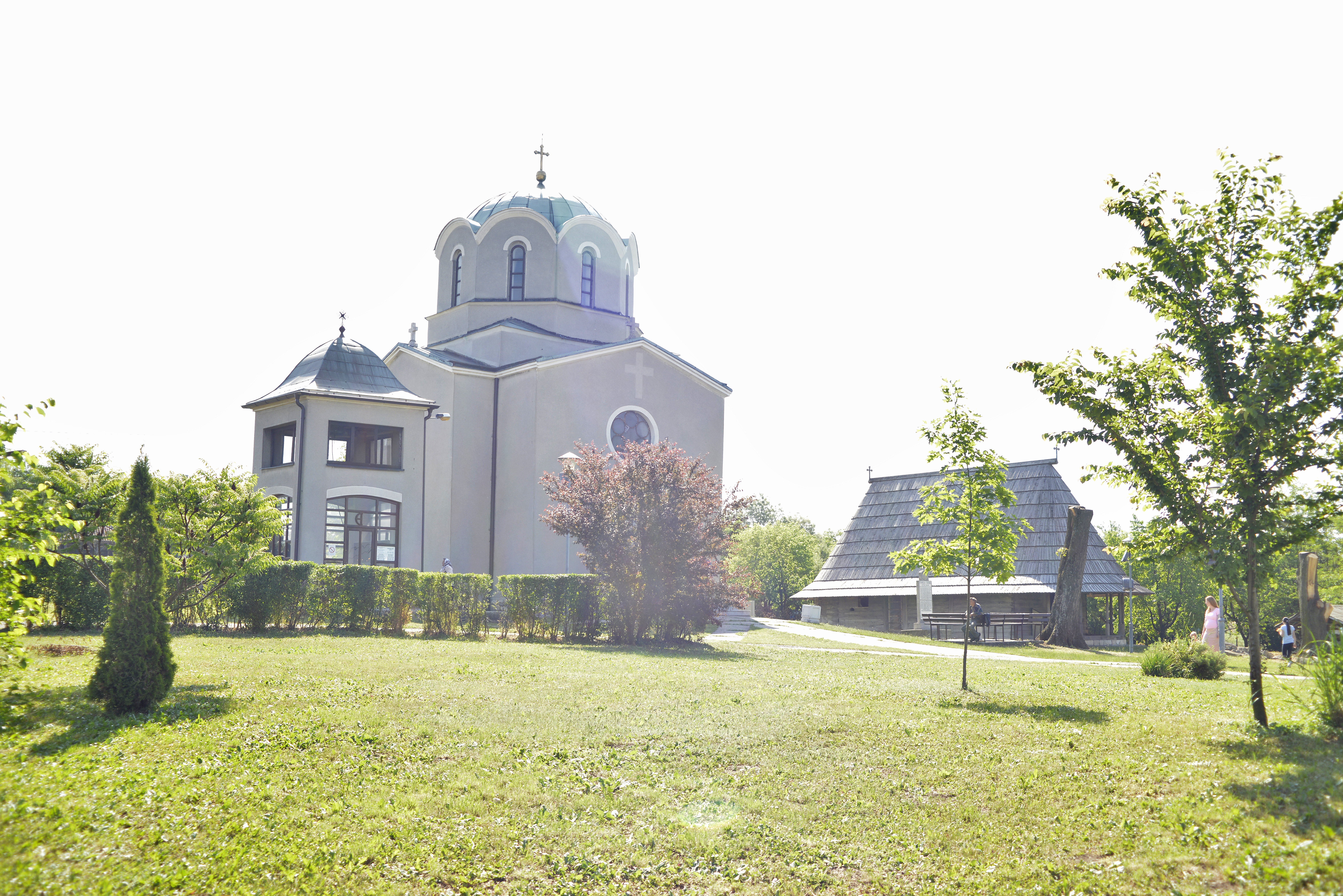 Old wooden Church of Forty martyrs and Elijah the Prophet church in Vranic, Barajevo (Municipality of Belgrade, Serbia)